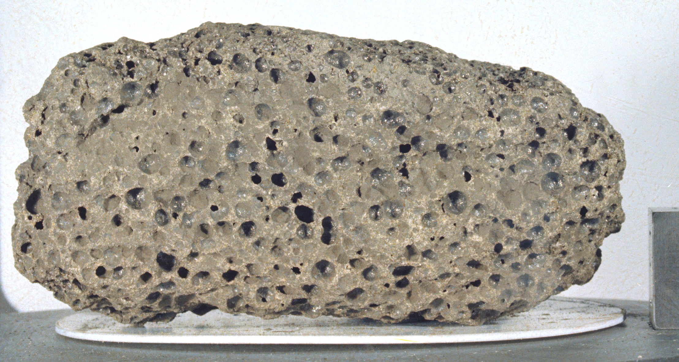 Vesicular basalt, Apollo 15 lunar sample 15016, collected at Station 3 of the mission, on the moon. Edge of cube at right is 1 inch. This rock is sometimes referred to as the seatbelt basalt.